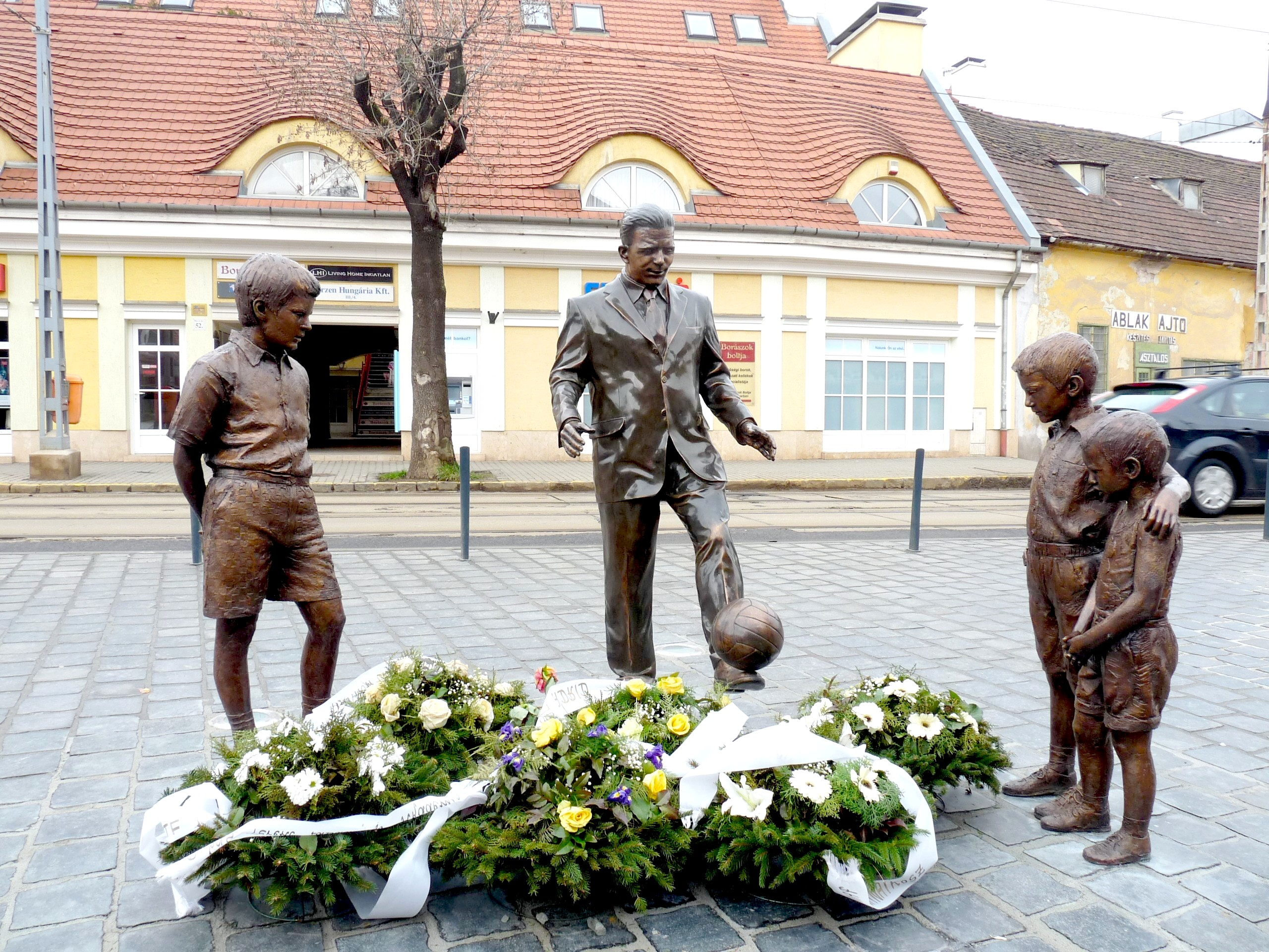 Statue of Ferenc Puskás (1927-2006) Hungarian footballer in Óbuda. The work of art inspired by a photograph taken in Madrid commemorates the legendary player of the "Golden Team" who elegantly dressed in costume teaches an ad hoc course in keepie uppie to street children. The main figure of the bronze group was formed after the study Gyula Pauer (1941–2012) while the figures of the children were sculpted by Dávid Tóth. The statue was unveiled March 28, 2013. (Budapest, District III, Bécsi Street Nr 61)